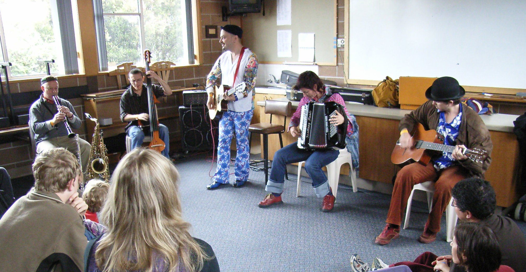 Monsieur Camembert (Australian music group) giving a workshop at the 2005 at Cygnet Folk Festival (1) (Tony Rees photograph)